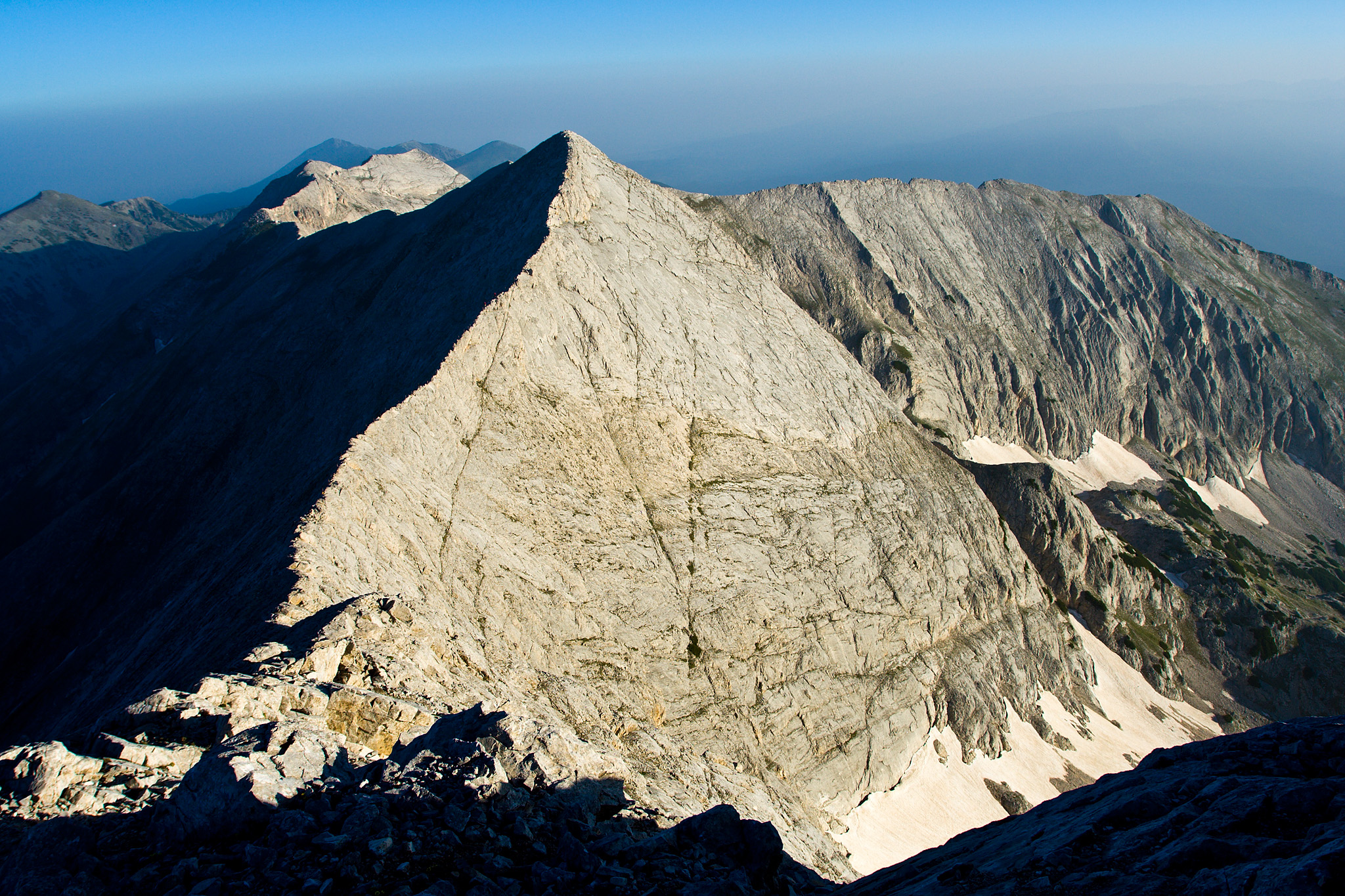 Banski Suhodol peak, as seen from Kutelo peak, Pirin mountain, Bulgaria